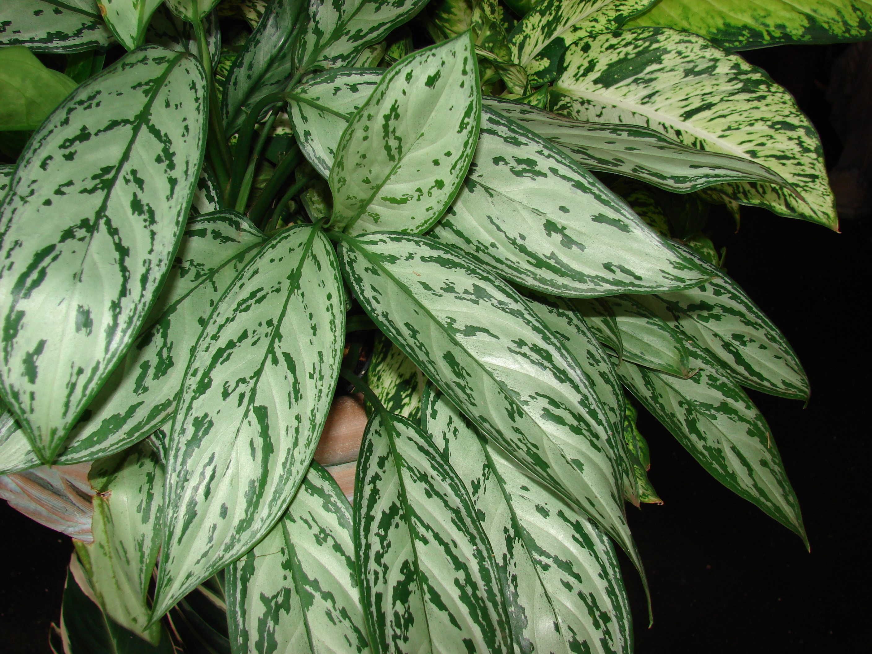 Aglaonema commutatum (Silver queen habit). Location: Maui, Kula Ace Hardware and Nursery